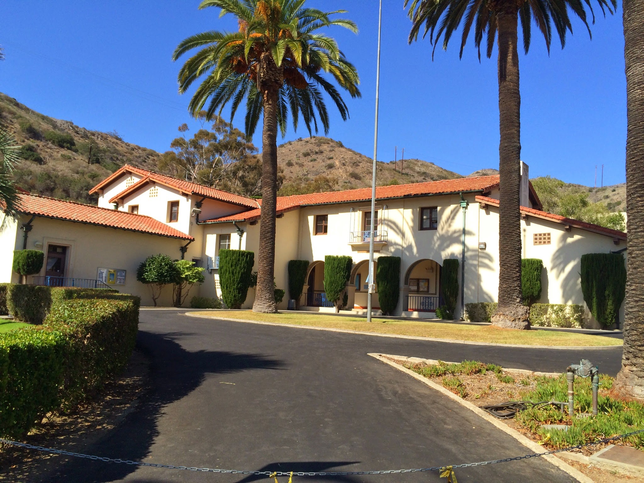 Avalon Schools main building in Avalon, California